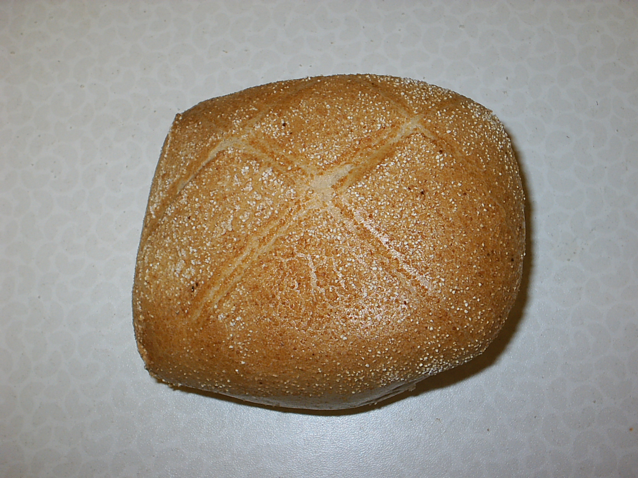 A roll from the nothern german town Neustrelitz